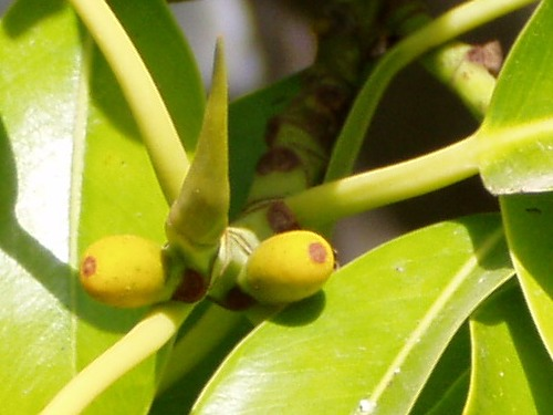 Rubber Tree